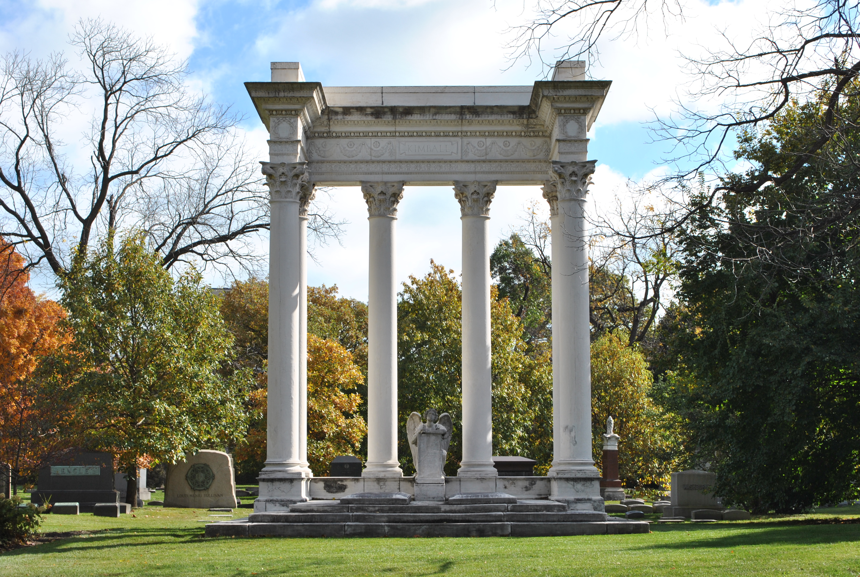 Tomb of William Wallace Kimball, founder of Kimball International, at Graceland Cemetery in Chicago.